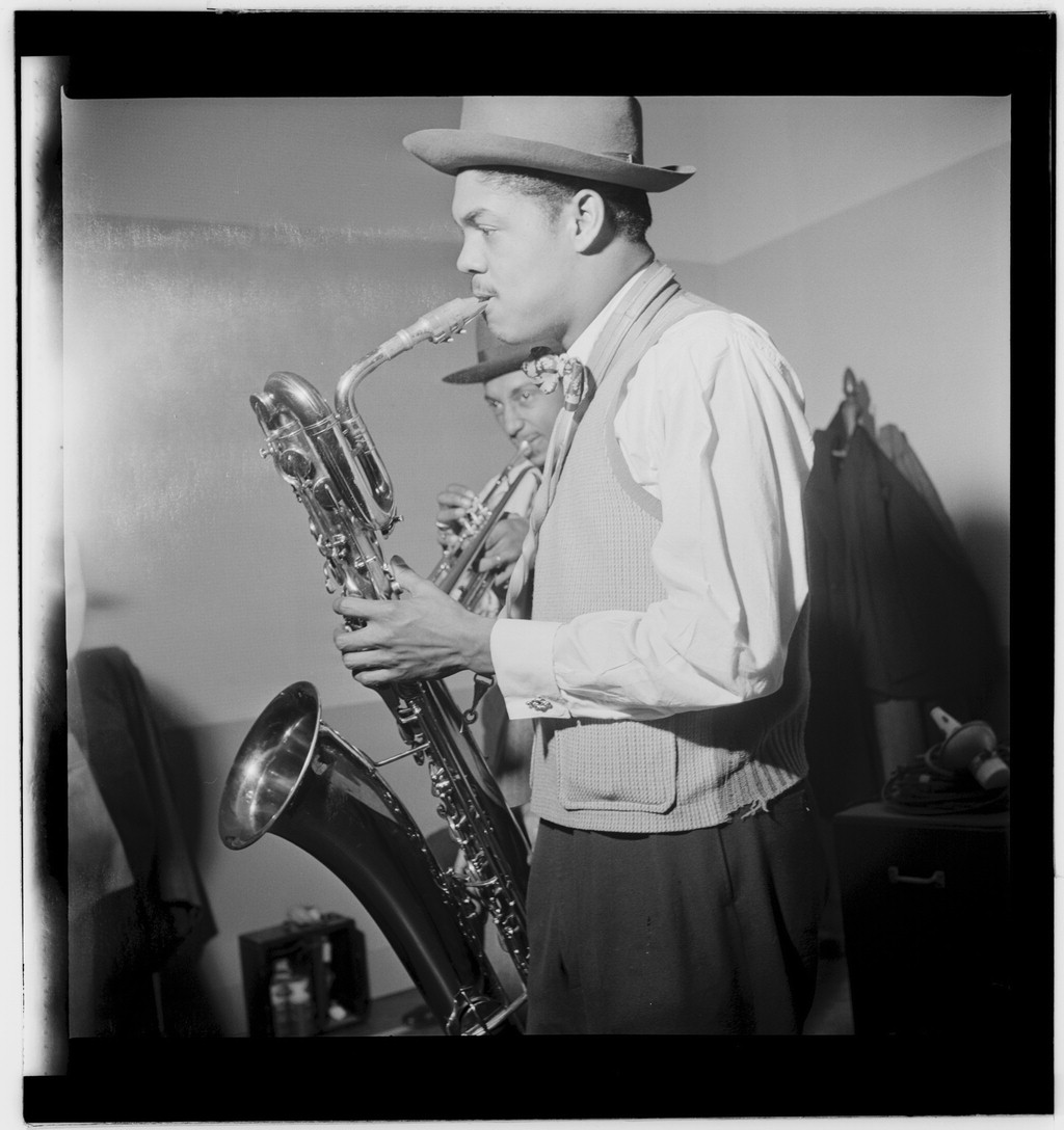 Gottlieb, William P., 1917-, photographer. [Portrait of Illinois Jacquet, New York, N.Y., ca. May 1947] 1 negative : b&w ; 2 1/4 x 2 1/4 in. Notes: Gottlieb Collection Assignment No. 153 Purchase William P. Gottlieb Forms part of: William P. Gottlieb Collection (Library of Congress). Subjects: Parker, Leo Jazz musicians--1940-1950. Saxophonists--1940-1950. Trumpet players--1940-1950. Format: Portrait photographs--1940-1950. Group portraits--1940-1950. Film negatives--1940-1950. Rights Info: Mr. Gottlieb has dedicated these works to the public domain, but rights of privacy and publicity may apply. Repository: (negative) Library of Congress, Prints & Photographs Division, Washington D.C. 20540 USA, Part Of: William P. Gottlieb Collection (DLC) 99-401005 General information about the Gottlieb Collection is available at Persistent URL: Call Number: LC-GLB23- 1260 This work is from the William P. Gottlieb collection at the Library of Congress. Rights and restrictions.In accordance with the wishes of William Gottlieb, the photographs in this collection entered into the public domain on February 16, 2010.